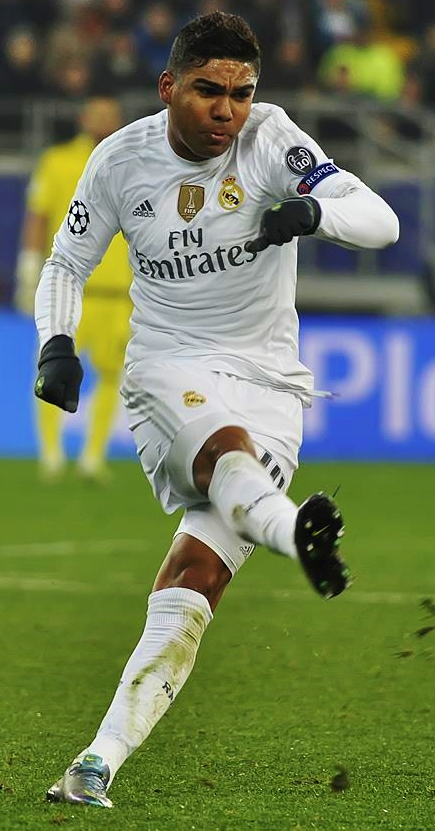 Casemiro